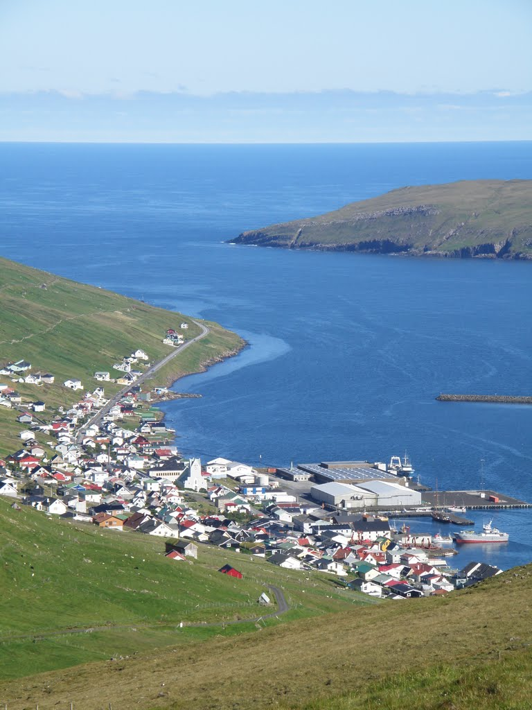 Vágur is a village in Suðuroy, Faroe Islands. The population is around 1350.